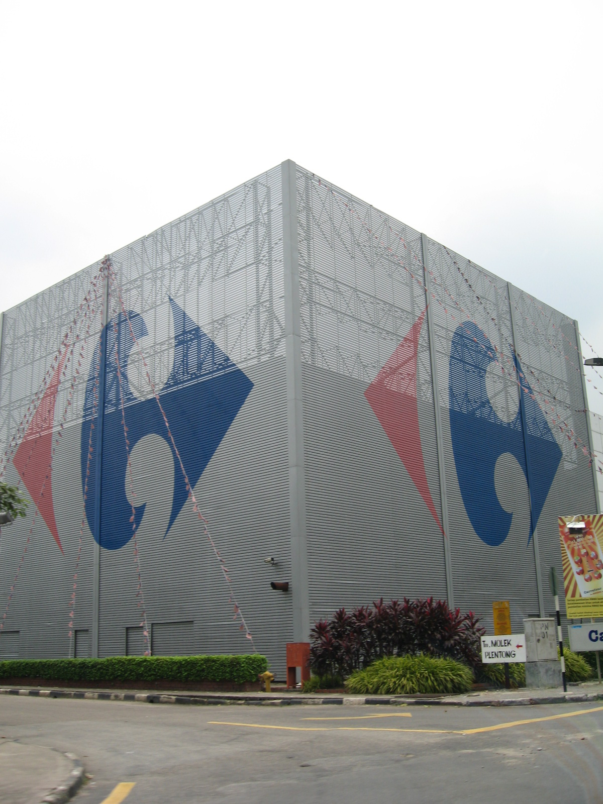 Carrefour at Jalan Pandan, Johor Bahru. Taken by Terence Ong in September 2006. JOKE :)